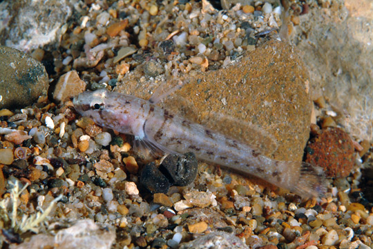 Chromogobius zebratus, photo taken on Tuscany coast (Calafuria, Livorno province) (Italy). Photo by Stefano Guerrieri.